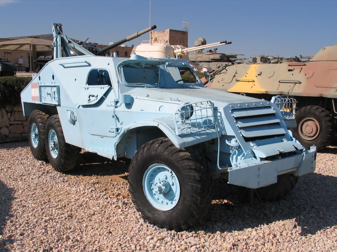 Description: BTR-152-based ARV in Yad la-Shiryon Museum, Israel. 2005. The vehicle was used by the South Lebanon Army. Source: Photo by me, User:Bukvoed